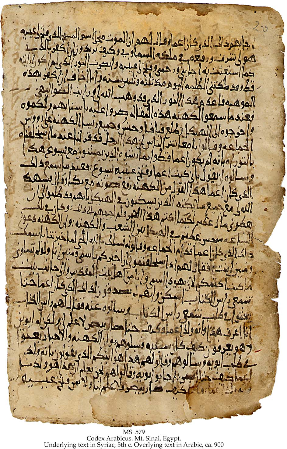 A page from the Codex Arabicus. The underlying text (ca. 500) is in Syriac, the overlying apocryphal text (ca. 900) is in Arabic. The manuscript contains: BIBLE: APOCRYPHA. TRANSITUS MARIAE (VIRGIN MARY'S ASSUMPTION INTO HEAVEN), BOOKS 1 AND 2 IBN AL'AMA, BISHOP: QUESTIONS ON EDESSA AND B'ARSAMJA ROMAN PEOPLES' MESSAGE (EPILOGUE OF ACTS OF SARBIL) BIBLE: JOHN 9:16 - 38 APOLOGY OF CHRISTIANS AGAINST JEWS "This was written concerning the six books, each book by two of the apostles. – These books were written in Hebrew and Greek and Latin, and the apostles deposited it with Mar John -. Because we apostles are twelve, it is fitting that twelve copies should be written of this book of my Lady Mary, and that a copy should go with each of us." (Book 4)